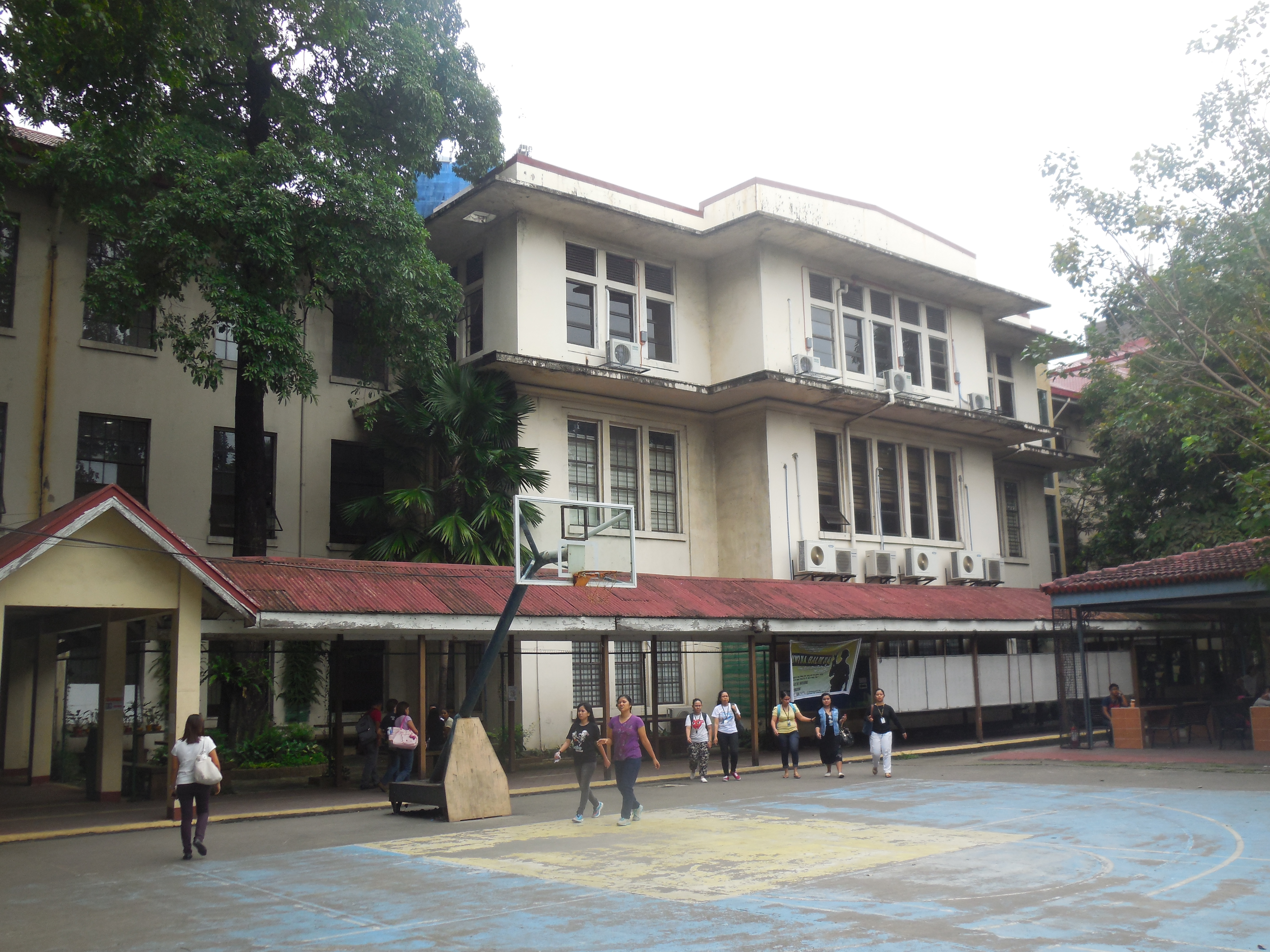 The Education Building of the Philippine Normal University in Taft Avenue cor. Ayala Boulevard, Manila.